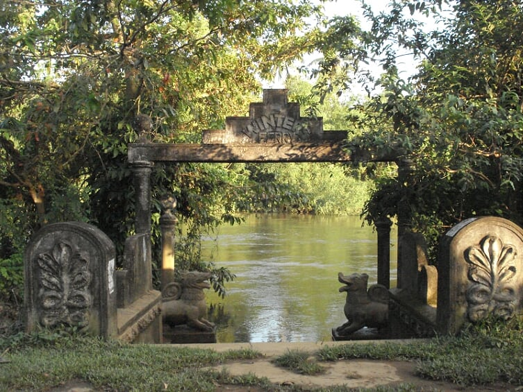 Winter Ferry Pier in Ginga River at Baddegama